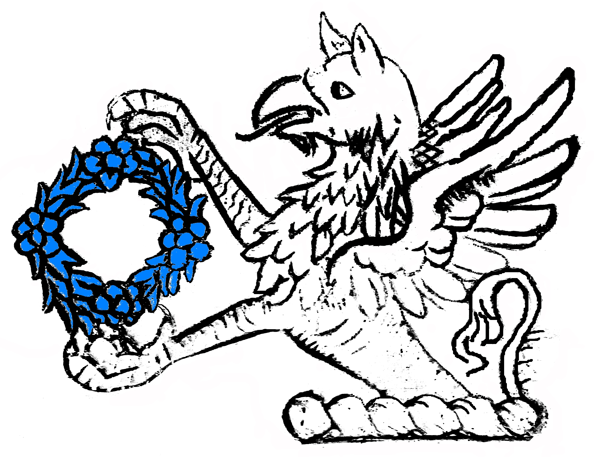 Crest of Duke family of Otterton, Devon (16th.c.): A demi-griffin salient argent, holding in its dexter claw a chaplet azure.(Source: Heralds' Visitation of Devon, 1620[1]) Enhanced image from monumental brass of Richard III Duke (1567-1641) in Otterton Church, Devon